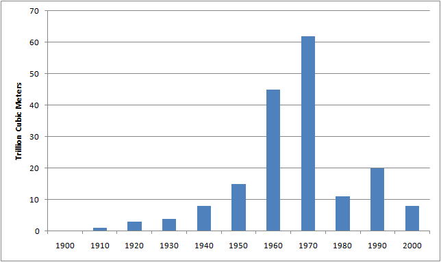 This is a chart of giant gas discoveries by decade using this data set 1900 1910 1920 1930 1940 1950 1960 1970 1980 1990 2000 0 1 3 4 8 15 45 62 11 20 8 The vertical axis is Billions of Cubic Meters of Gas